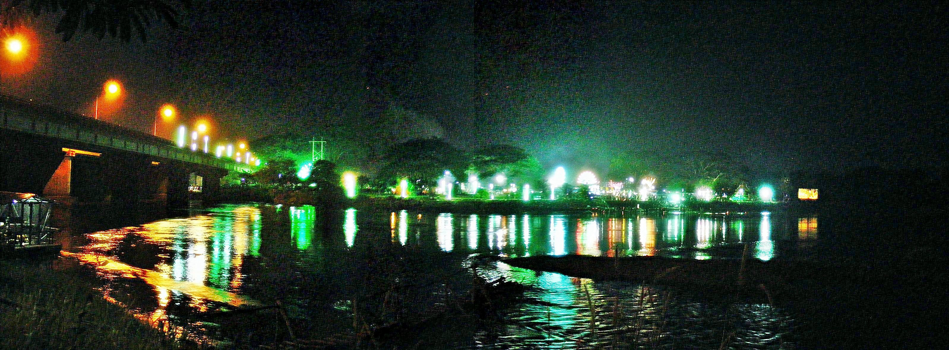 Ban Khung Taphao Park in Ban Khung Taphao Location: Ban Khung Taphao, Khung Taphao subdistrict, Mueang Uttaradit, Uttaradit Province, Thailand.